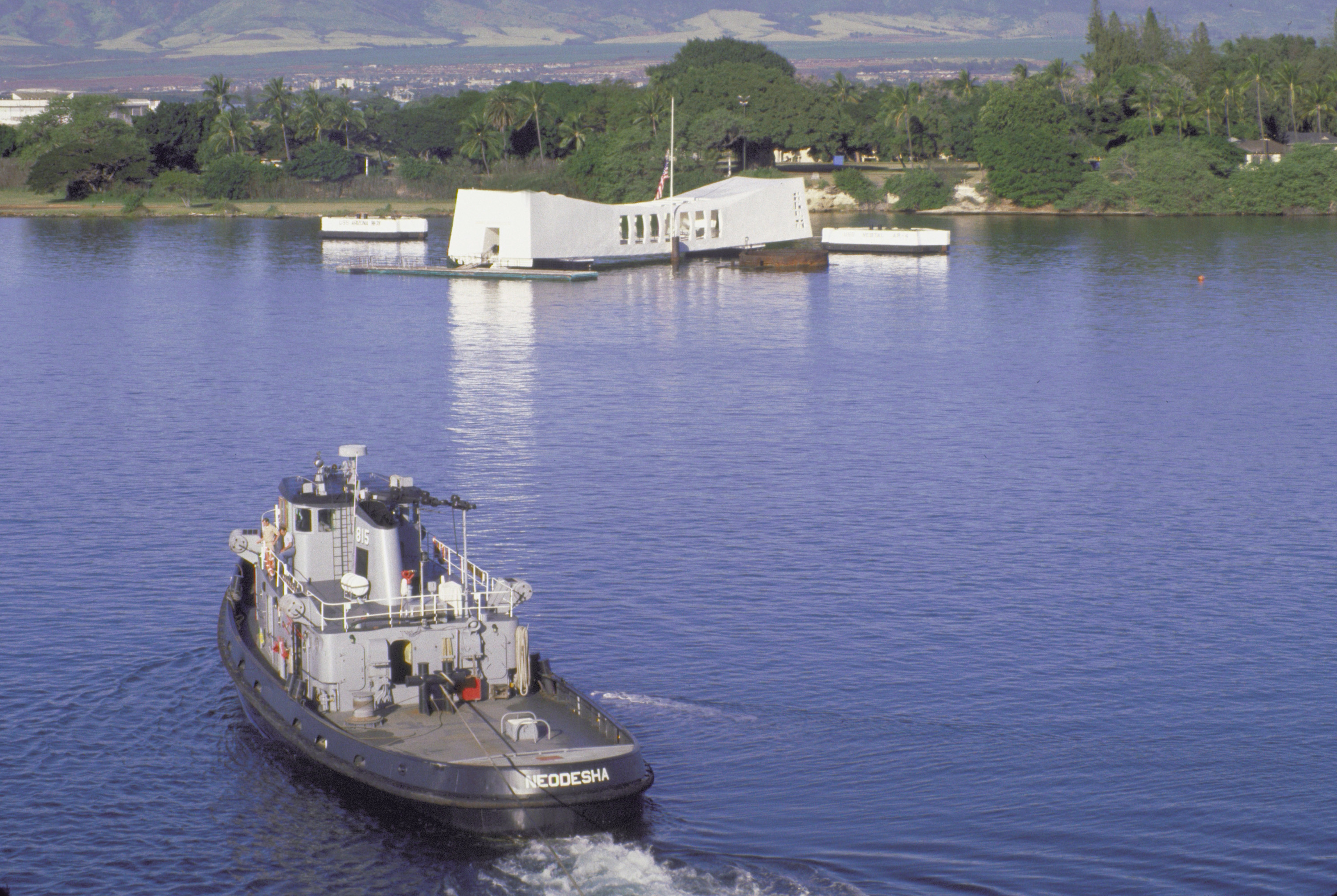 Neodesha (YTB-815) approaches the Arizona (BB-39) Memorial at Naval Station Pearl Harbor, 7 December 1984. DVIC photo # DN-SC-92-02606